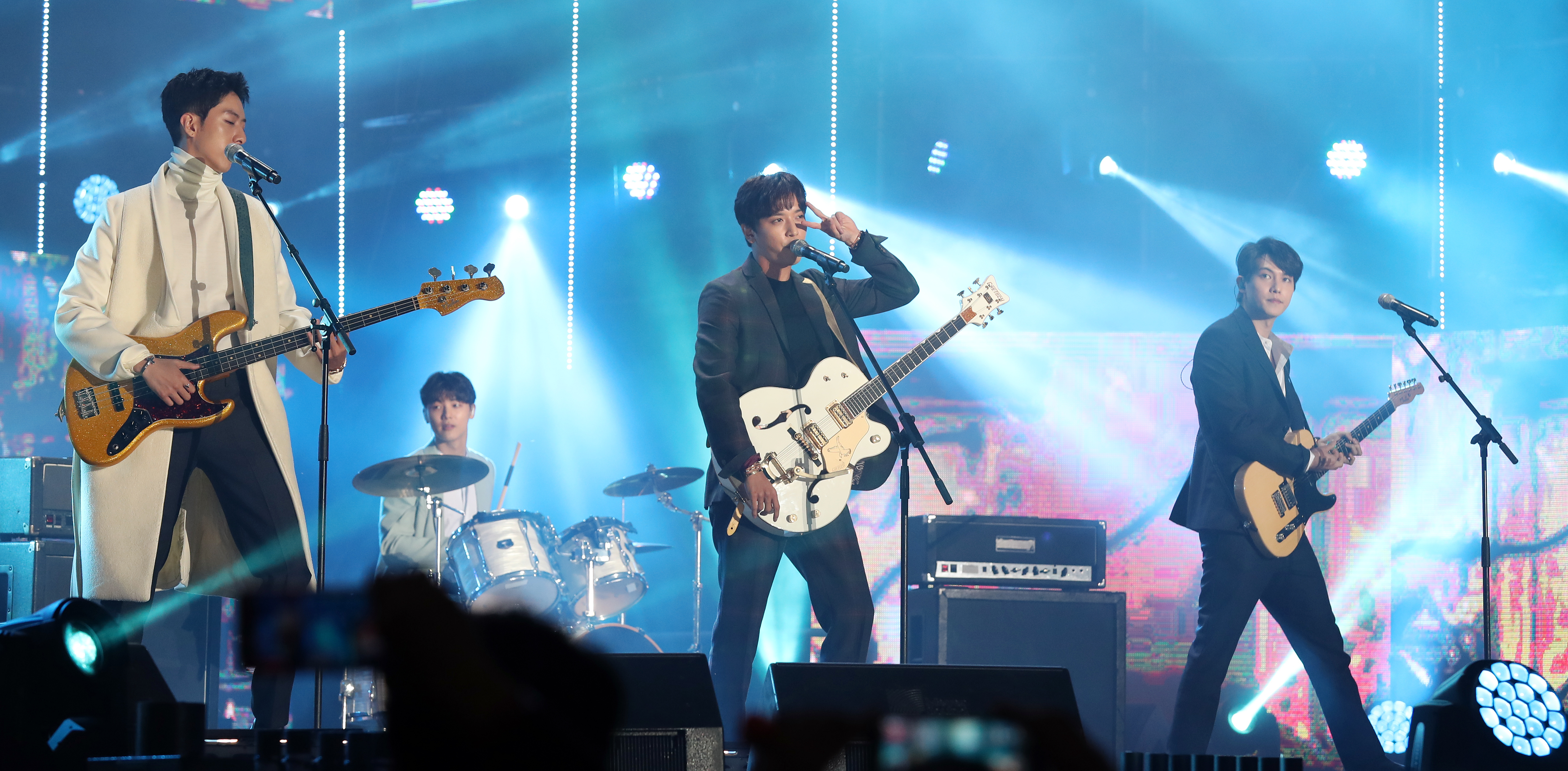 Korea Sale Festa Opening Ceremony CNBLUE September 30, 2016 Yeongdongdae-ro, Gangnam-gu, Seoul Ministry of Culture, Sports and Tourism Korean Culture and Information Service ( Official Photographer : Jeon Han